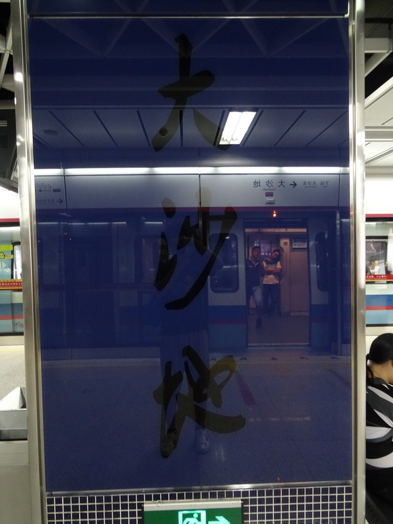 大沙地站柱上啲字